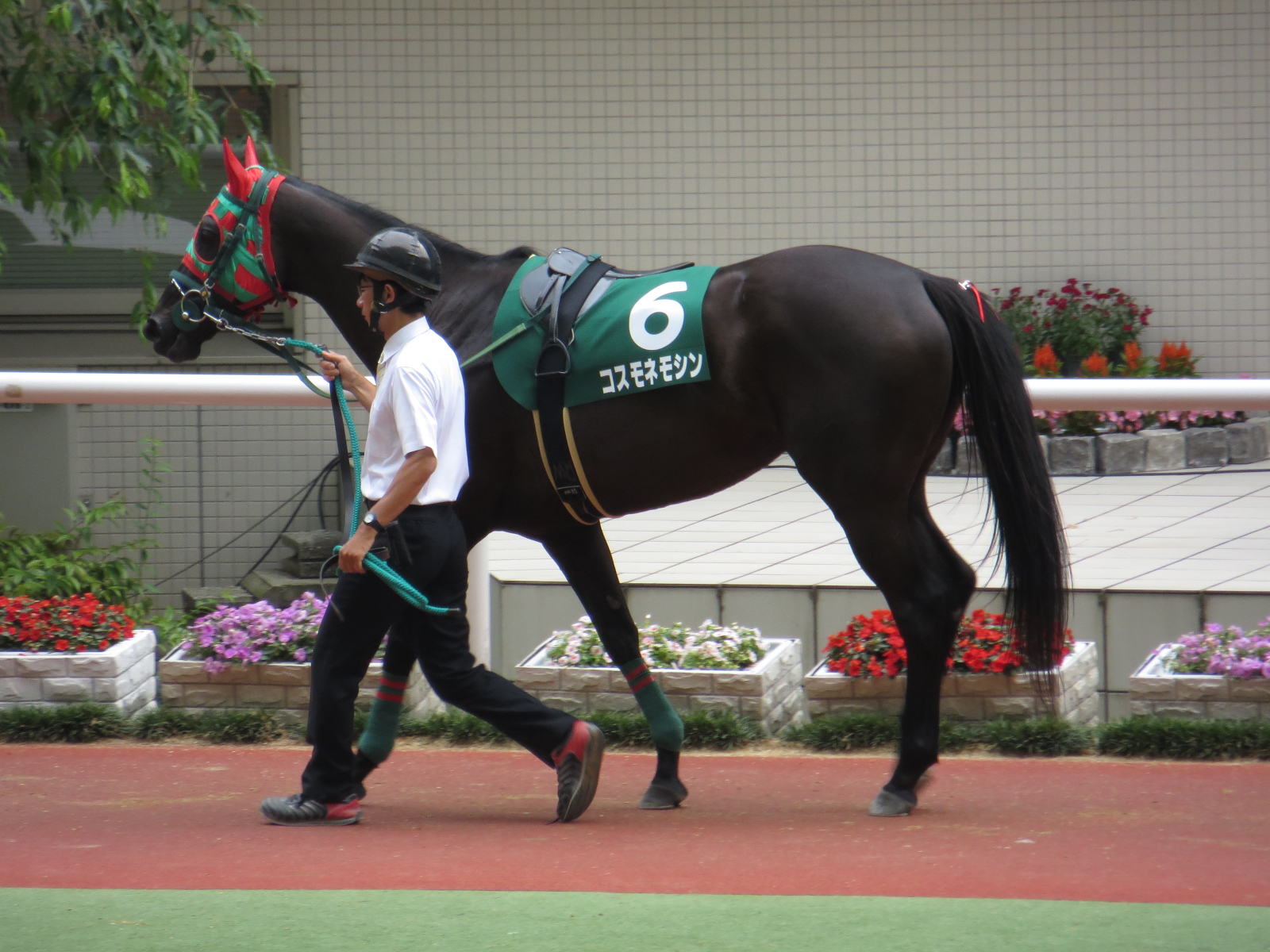 Cosmo Nemo Shin (Racehorse of Japan).